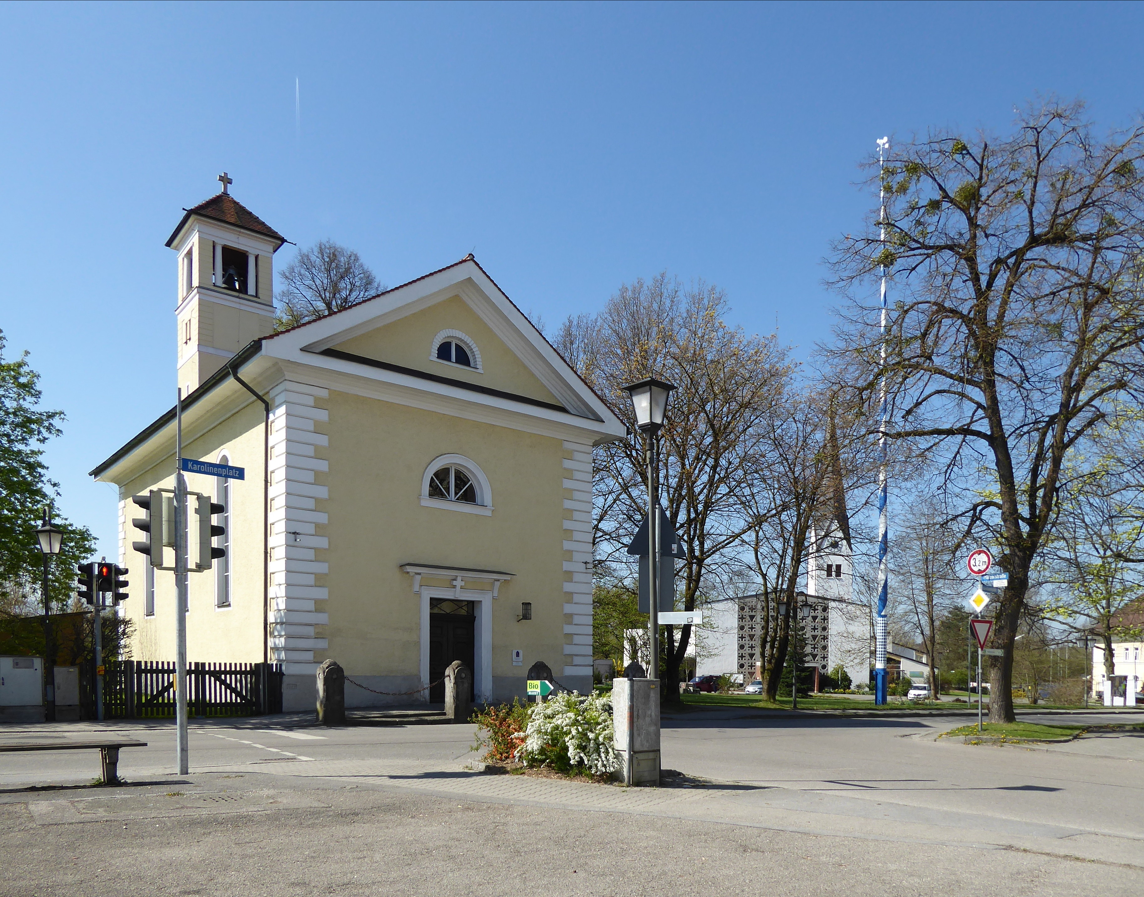 Municipality Großkarolinenfeld in Bavaria, Germany - Forground left: Protestantic church Karolinenkirche, background right: Catholic church Heilig Blut